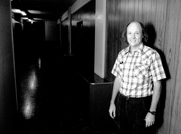 Terry Riley at Great American Music Hall San Francisco CA 1985. Photo by Brian McMillen /